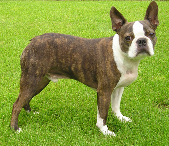 Boston Terrier brindle coat "Dawson", a brindle Boston By Ellen Levy Finch August 21, 2004 in Pacifica, California.